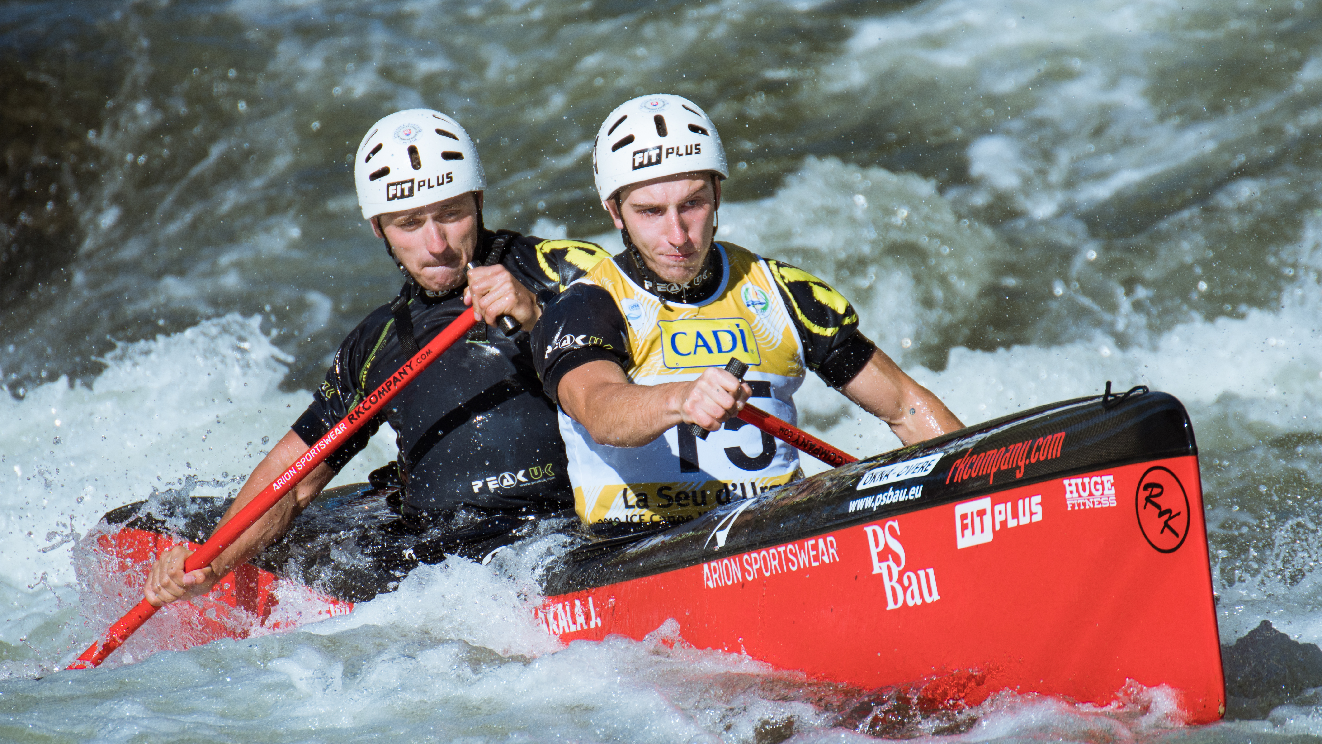 Juraj Skákala and Matúš Gewissler during the 2019 Canoe Wildwater World Championships in La Seu d'Urgell, Spain.